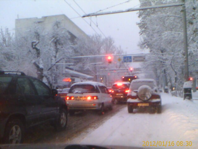 Snow in Almaty, Kazakhstan